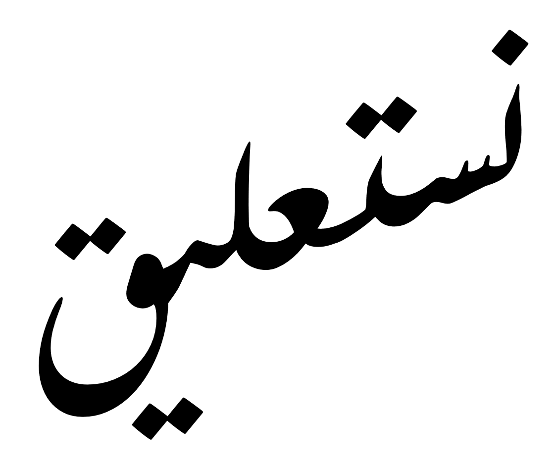 نستعلیق in the font Urdu Typesetting